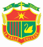 La Salle College - Crest